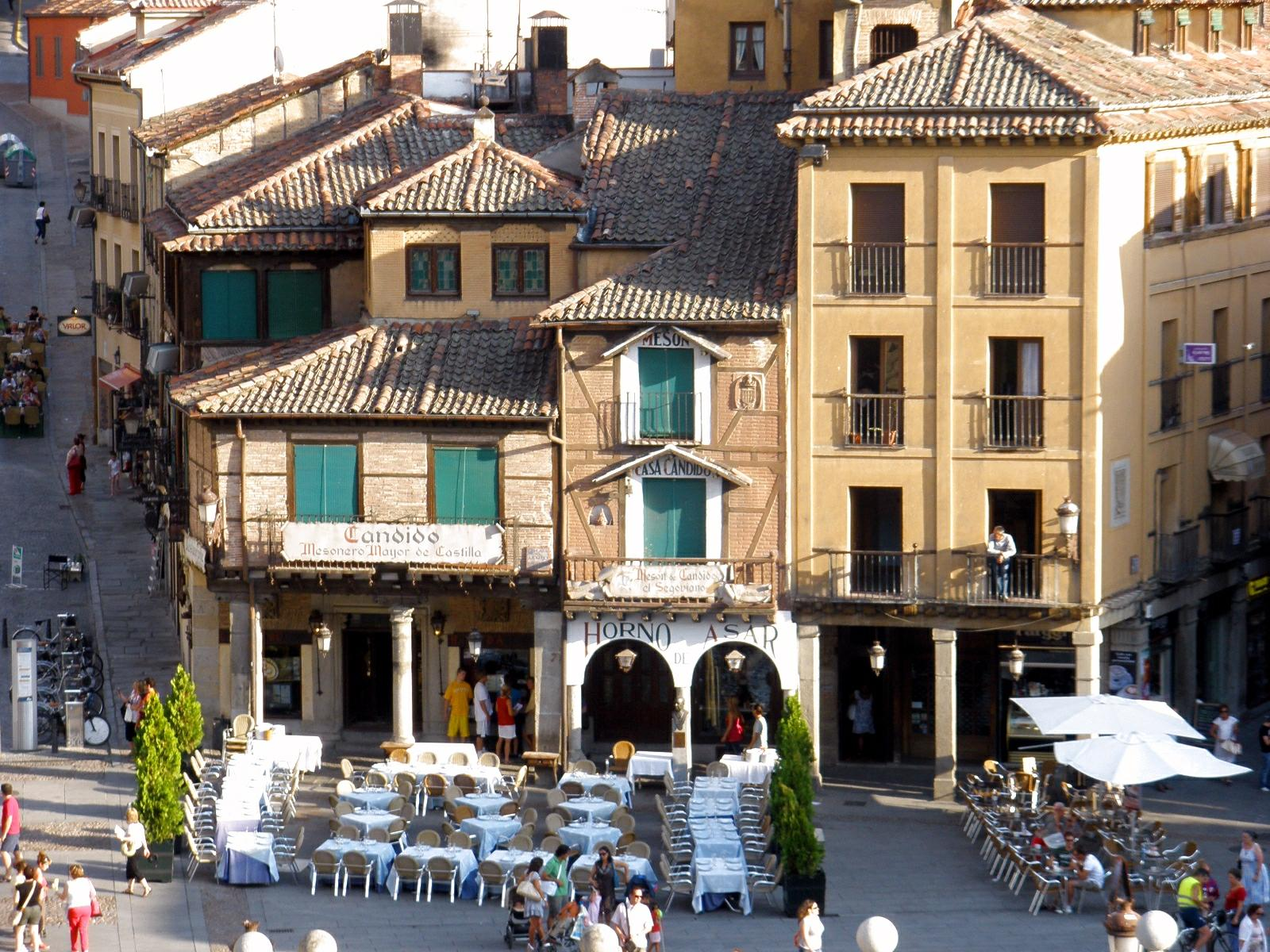 Aspecto de la Plaza del Azoguejo de Segovia. En primer término, el Mesón de Cándido